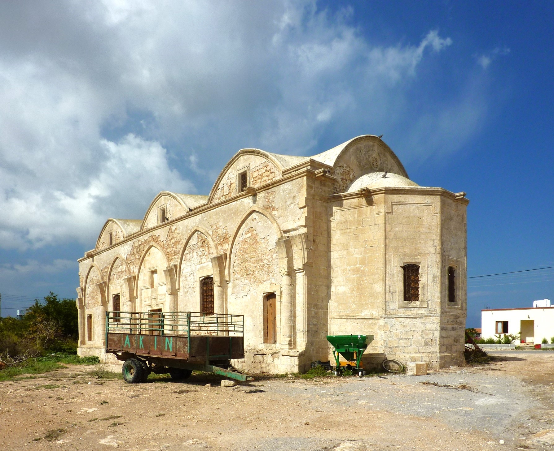 Orthodox Church Archangelos Michail, Dipkarpaz, Northern Cyprus